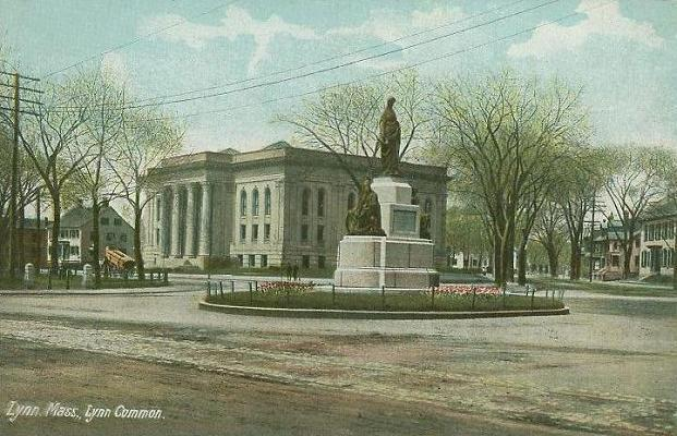 Lynn Common, showing Public Library and Soldiers' Monument, Lynn, MA; from a c. 1906 postcard. This is the very eastern end of the Common, which extends over half a mile to the west.